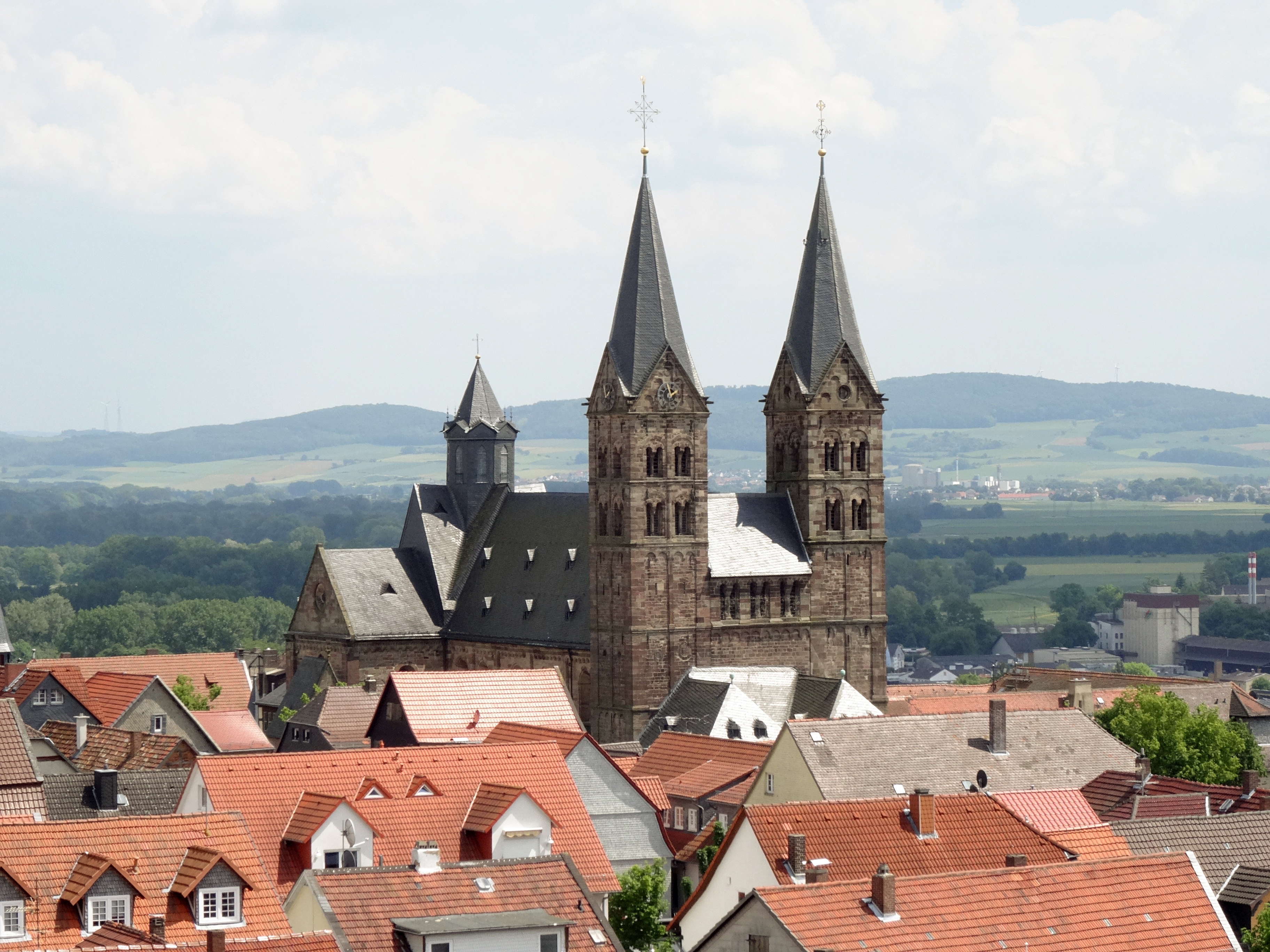 Cathetral of Fritzlar, Germany